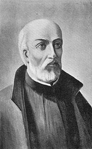 Saint Jean de Brébeuf